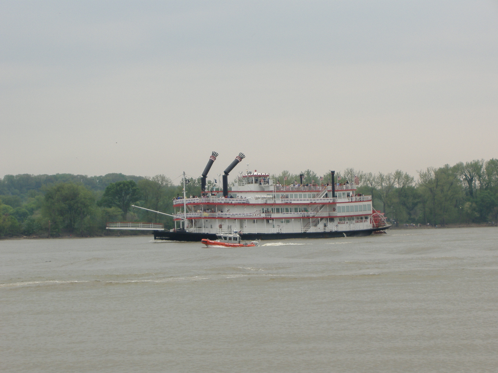 Image of the Belle of Cincinnati, taken during the 2007 Great Steamboat Race